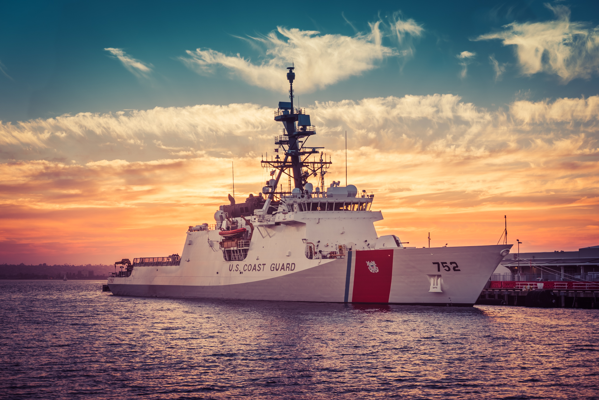 USCGC Stratton moored in San Diego, California.